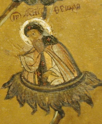 Tree Kiev-Pechersk saints (detail). Icon. Rus. 1660s. From p. Annunciation of Uglich. Uglich Museum.